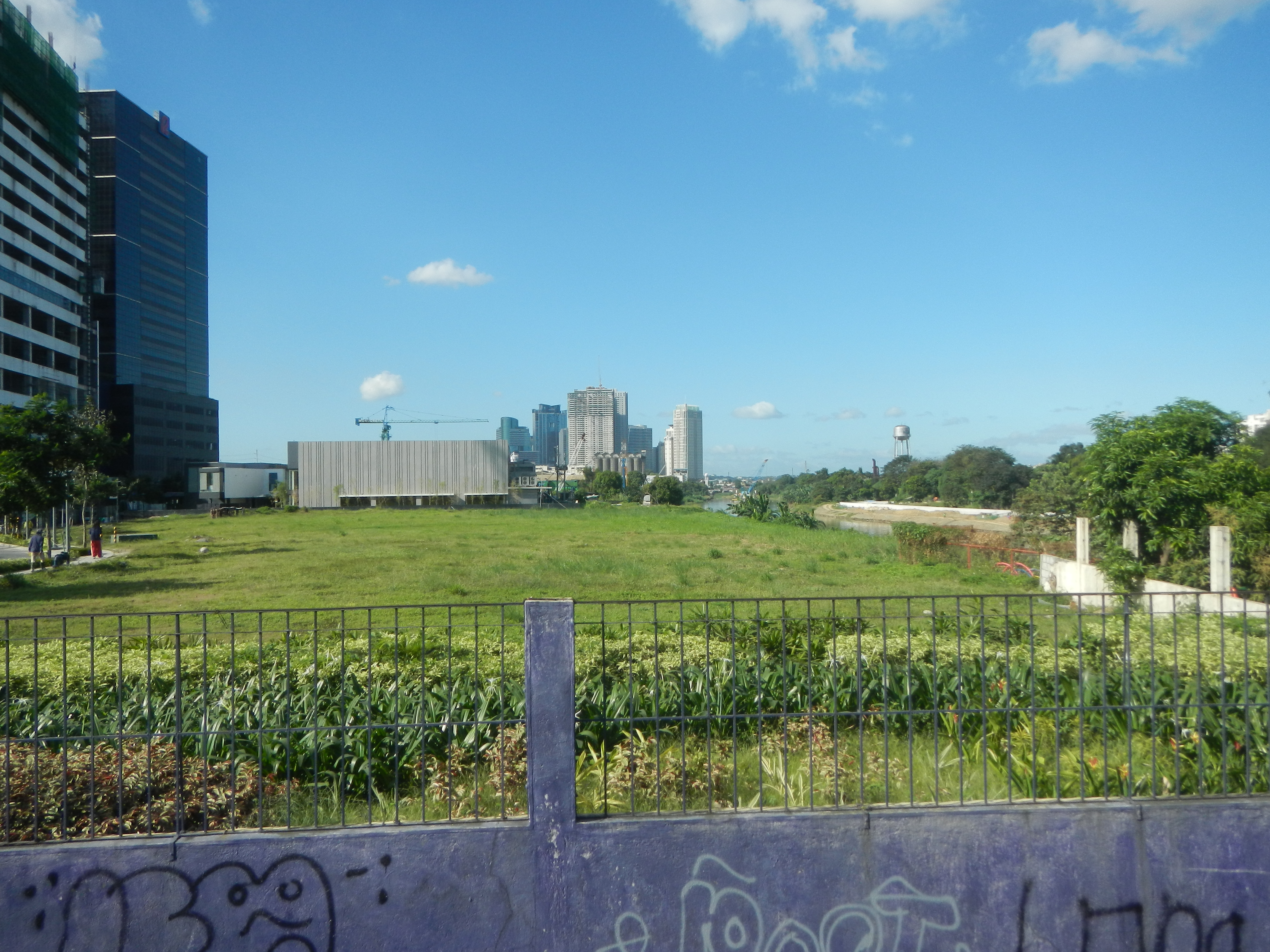 C-5 Ortigas Avenue Interchange (Pasig) 14°35'23"N 121°4'47"E Circumferential Road 5–Ortigas Avenue Coordinates: 14°35′23.11″N 121°4′47.84″E An intersection in Ortigas Avenue and C-5 E. Rodriguez, Jr. to Rosario Bridge (Rosario-Ugong, Pasig City) Load limit 20 metric tons K0014+380 - K0014+204 length 170 meters Rosario LS Water Level Gauging Station, PAGASA, DOST Donated by the Republic of Korea KOICA Early warning and monitoring system for Disaster mitigation in Metro Manila Construction of Pasig-Marikina River Channel Improvement Project Phase III Contract Package No. 2 Lower Marikina River June 1, 2014-May 27, 2017 JICA Loan No. PH P 252 & GOP Marikina River Pasig River Rehabilitation of the Pasig River Pasig River Rehabilitation Commission Pasig-Marikina River Channel Improvement Project (Phase III) in the List of barangays of Metro Manila, Barangay Ugong, Pasig Rosario 14°35'33"N 121°5'35"E Ugong 14°34'54"N 121°4'21"E Pasig City Radial Road 5 Circumferential Road 5 to Shaw_Boulevard (Note: Judge Florentino Floro, the owner, to repeat, Donor Florentino Floro of all these photos hereby donate gratuitously, freely and unconditionally all these photos to and for Wikimedia Commons, exclusively, for public use of the public domain, and again without any condition whatsoever).